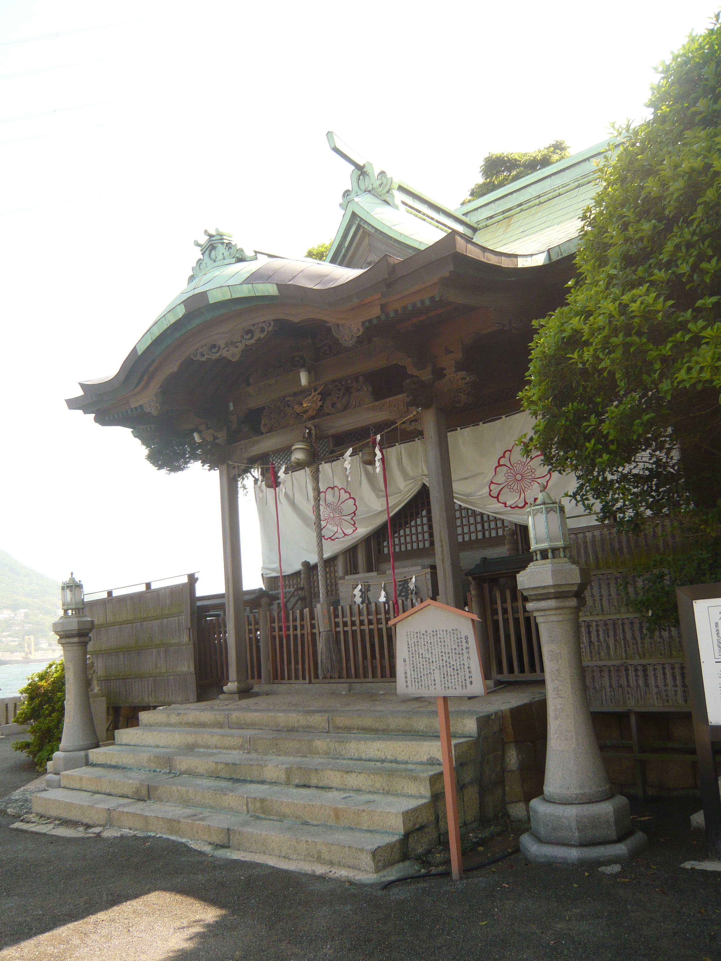 Mekari-jinja, Kitakyushu, Fukuoka, Japan